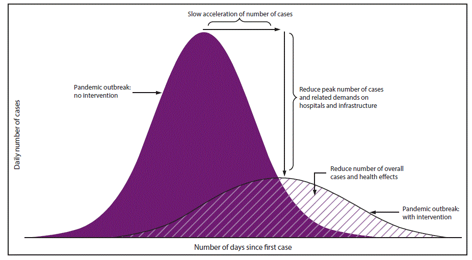 Goals of community mitigation for pandemic influenza